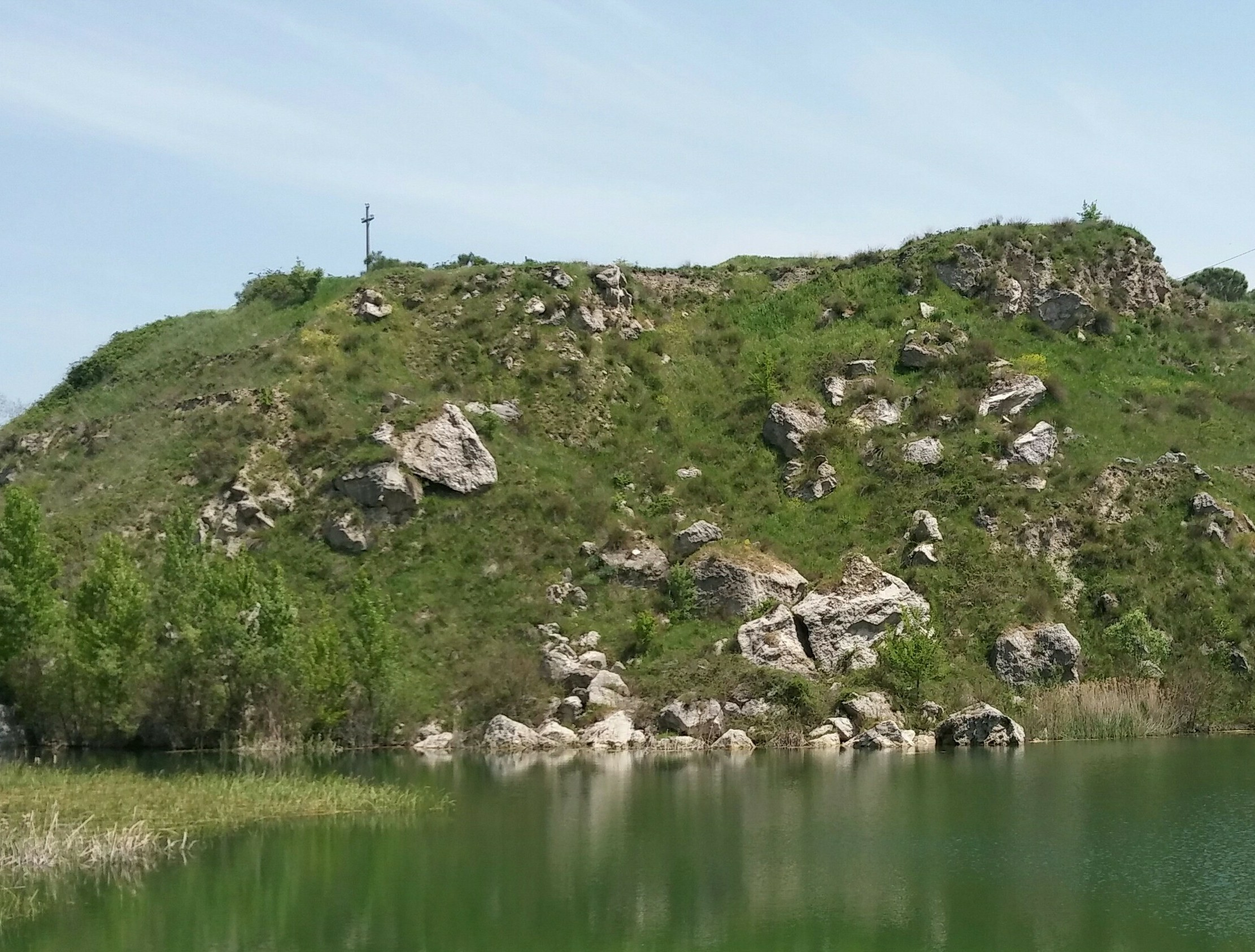 La Starza, a Neolithic archaeological site located 7 km north of Ariano Irpino, Italy